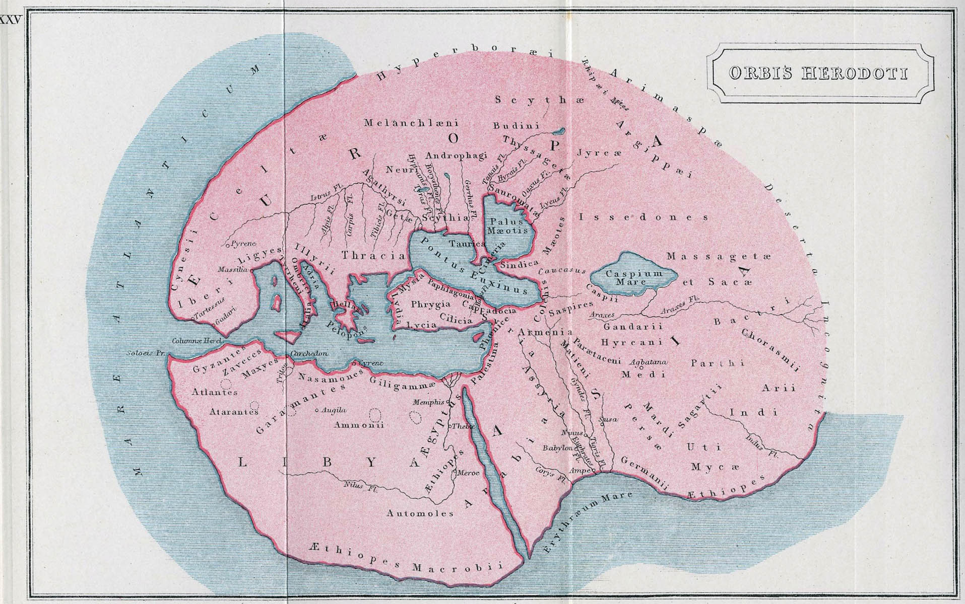 "The World of Herodotus" - originally "Orbis Herodoti" steel engraving, color, surface, from the album Longman & Co.. c. 1860, signed by S. Hall, Del. et Sculp.